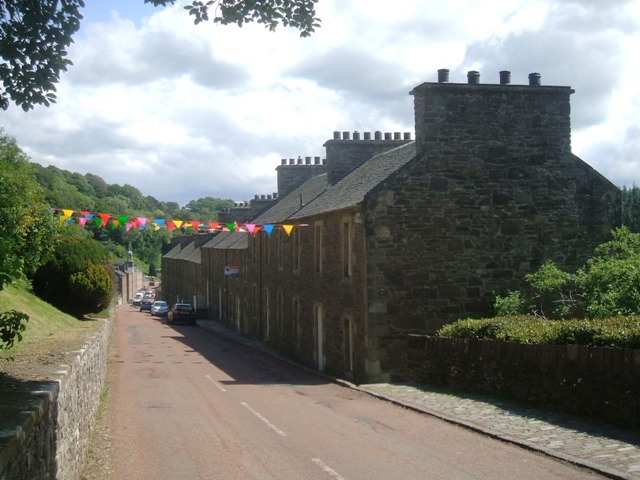 Braxfield Row